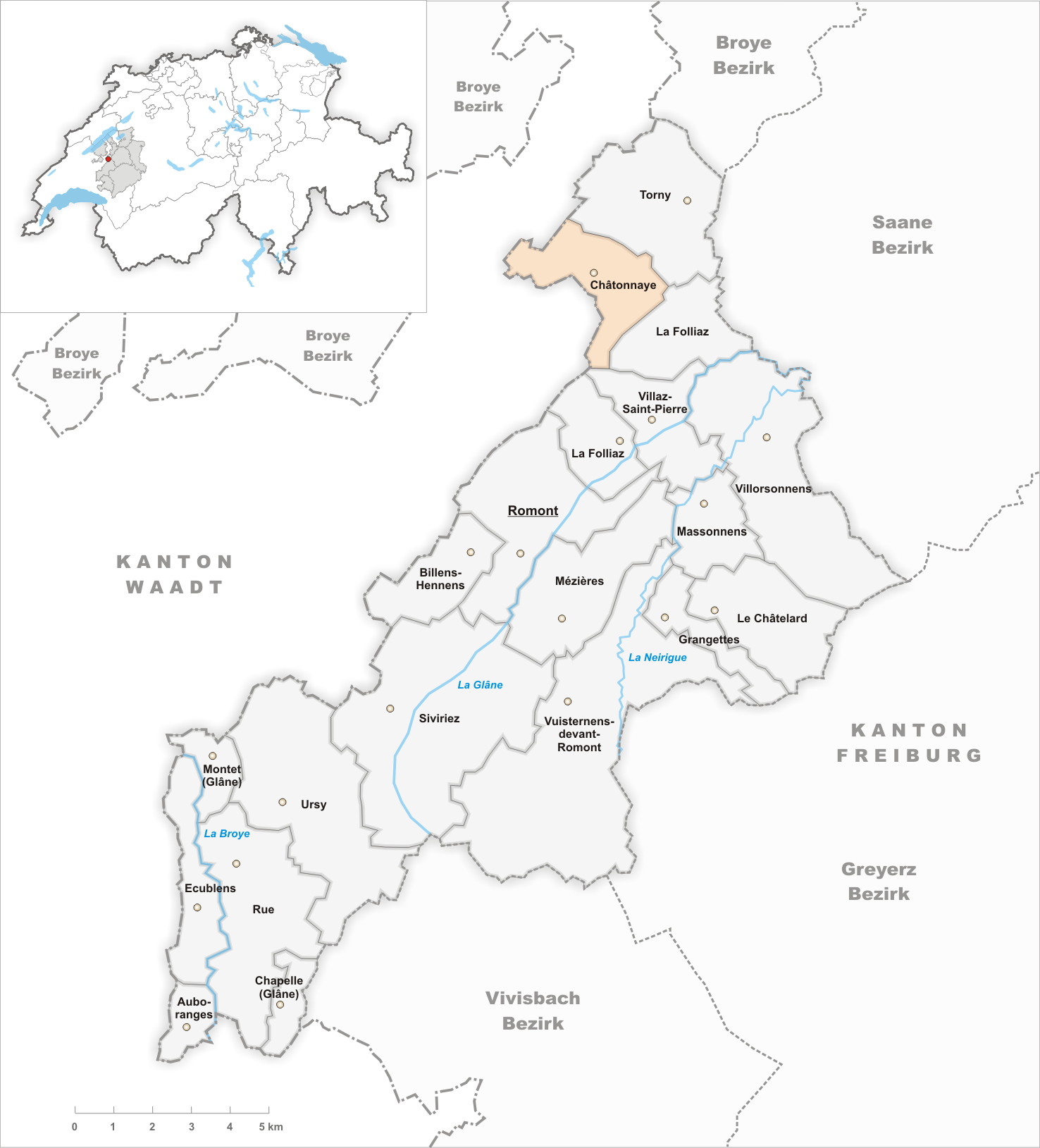 Municipality Châtonnaye